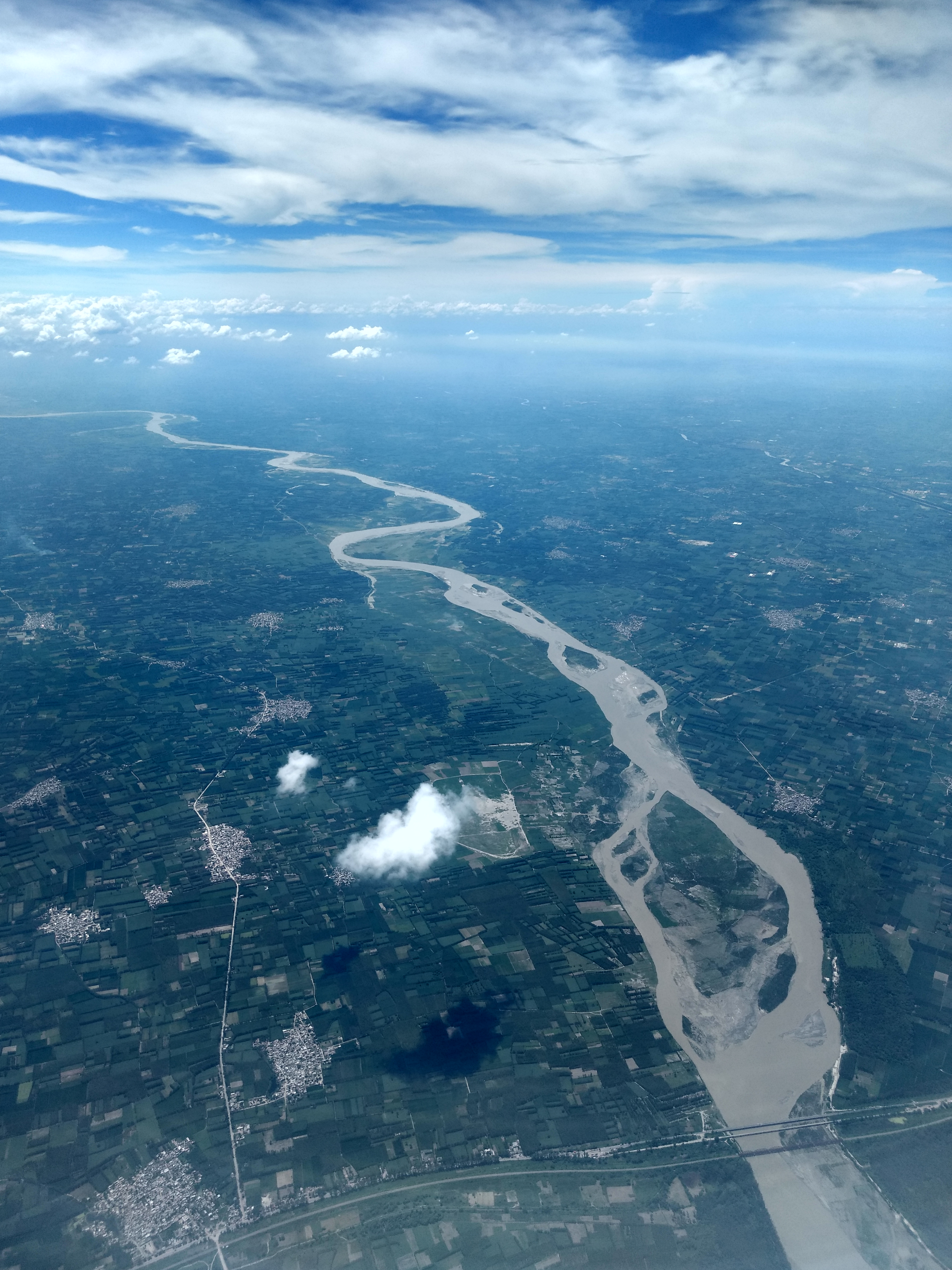 River channels near Chandigarh